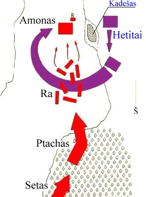 Map of the Battle of Kadesh